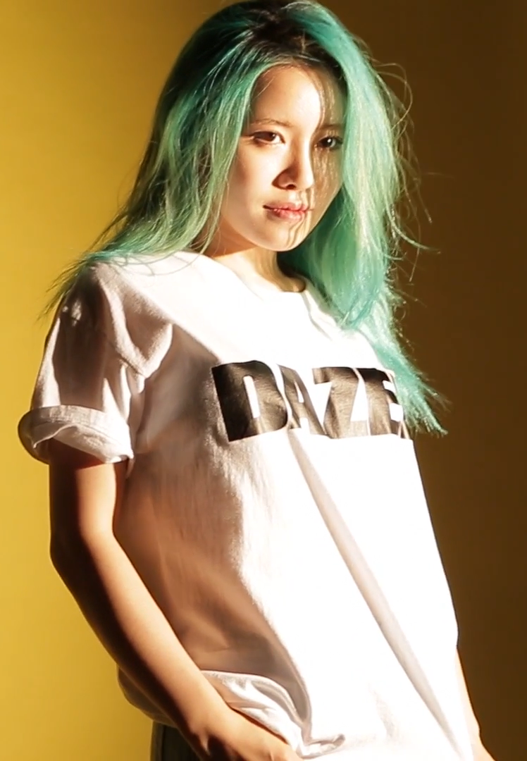 Suran at a photoshoot in 2016